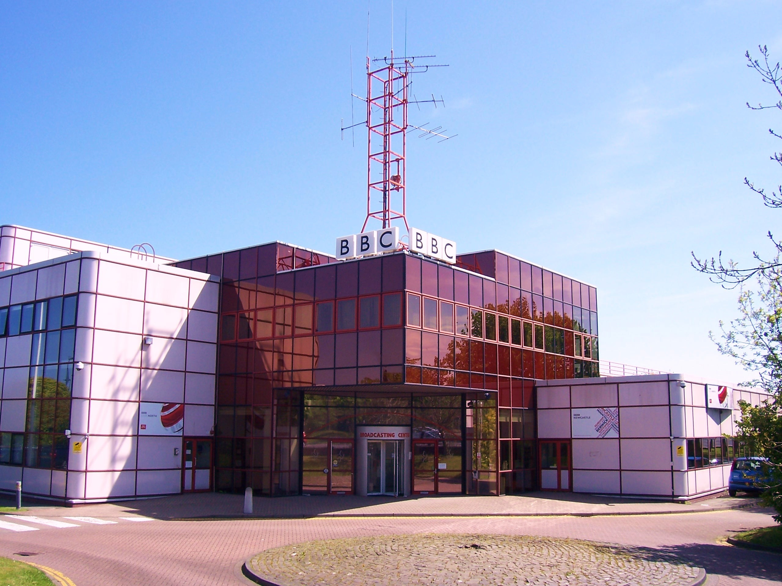 BBC Television and Radio Studios in Newcastle upon Tyne opened in 1988 by HRH Prince Charles and known locally as 'The Pink Palace'.